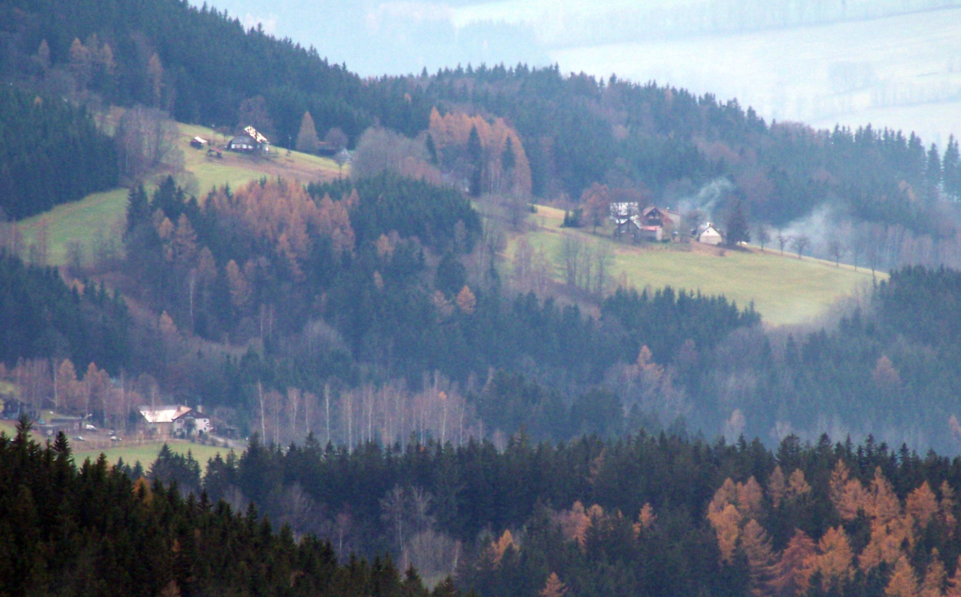 A view from Dvoračky (Rokytnice nad Jizerou-Rokytno, Semily District, Liberec Region, the Czech Republic).